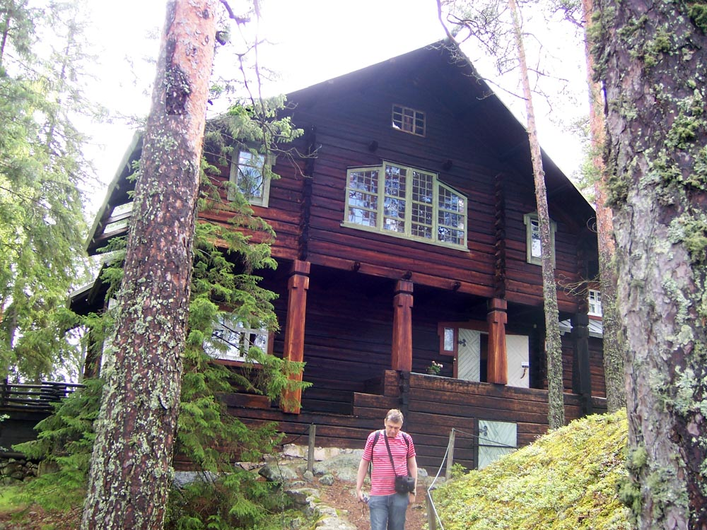 Kalela, summer house of painter Akseli Gallen-Kallela, Ruovesi